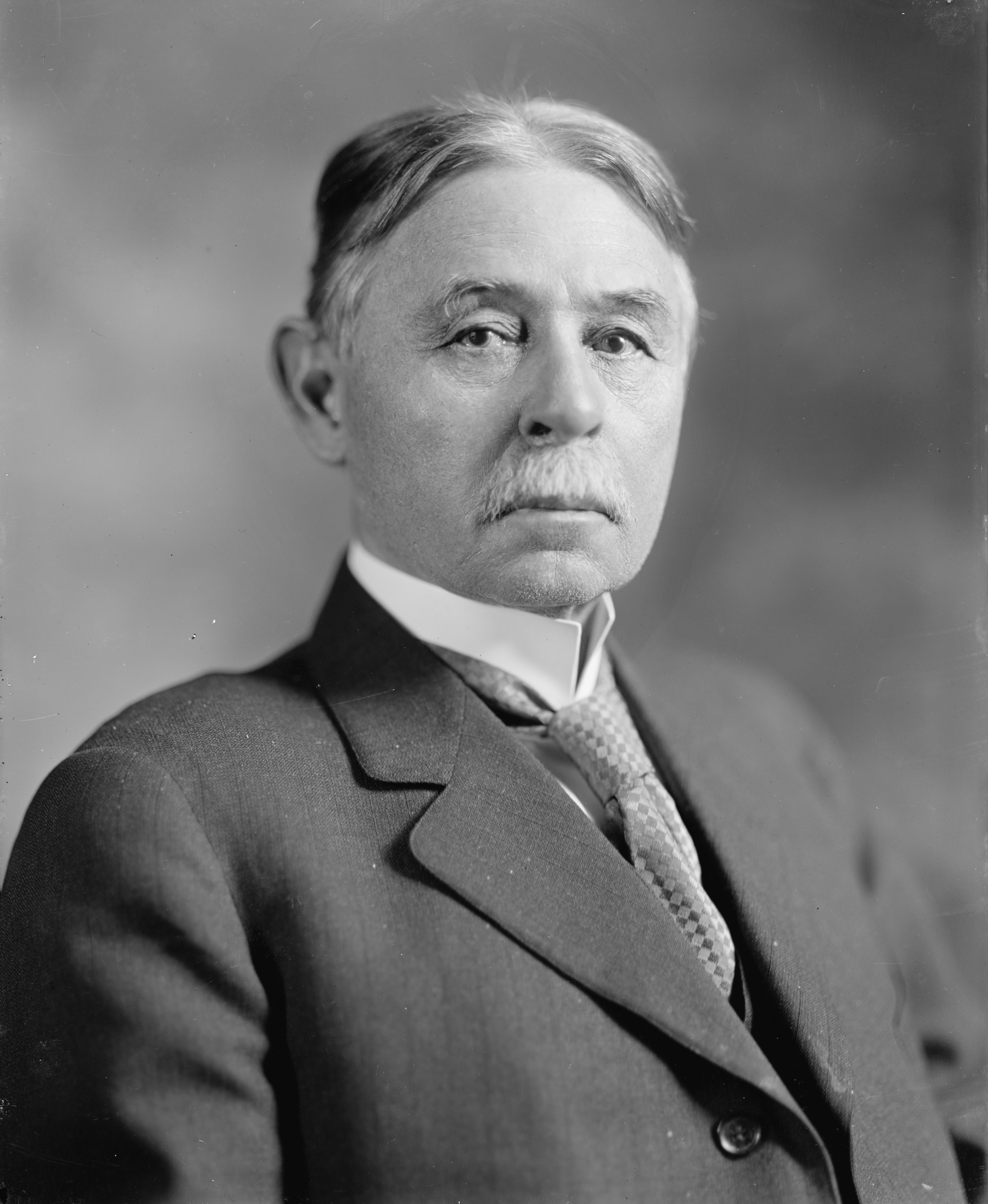 Title: SIMMONS, F.M. SENATOR Abstract/medium: 1 negative : glass ; 8 x 10 in. or smaller